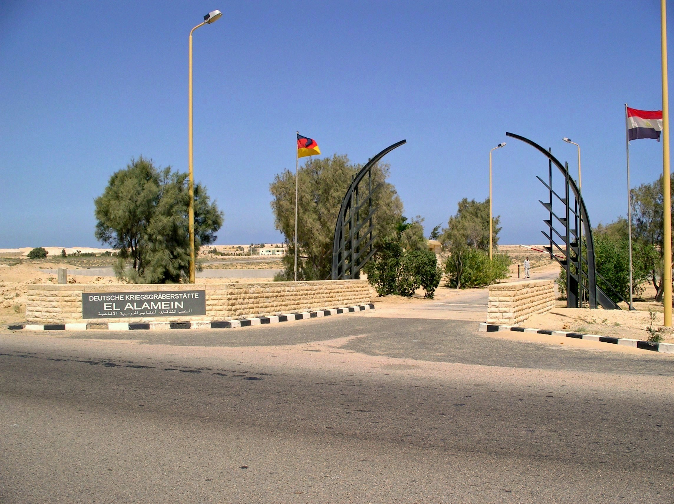 Entrance to the German military cemetery at El Alamein, Egypt by Manfred Bergmeister